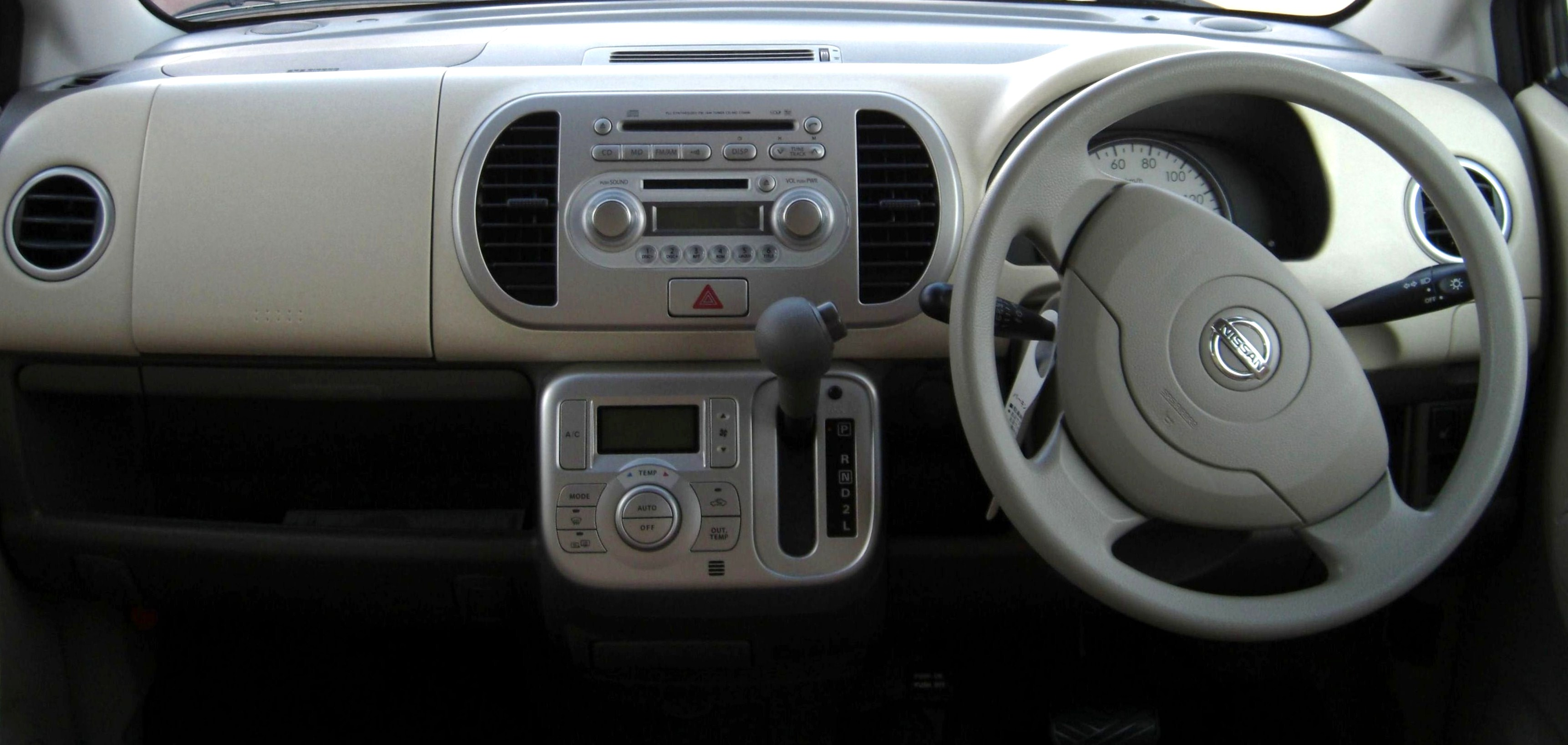 NISSAN MOCO